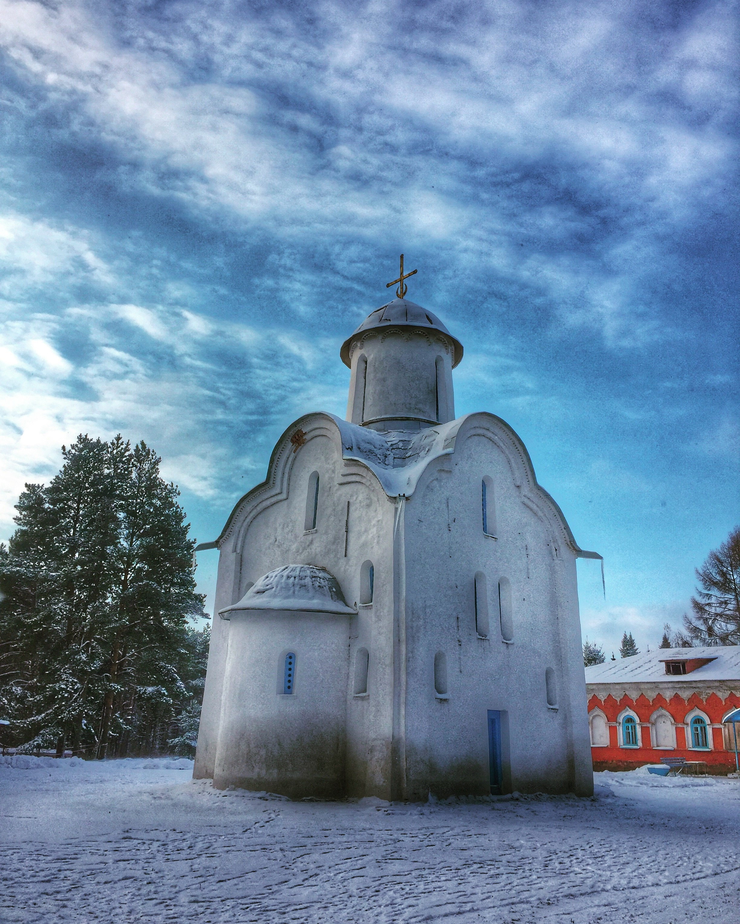 Church of the Nativity of the Theotokos on Peryn. 1220 y.